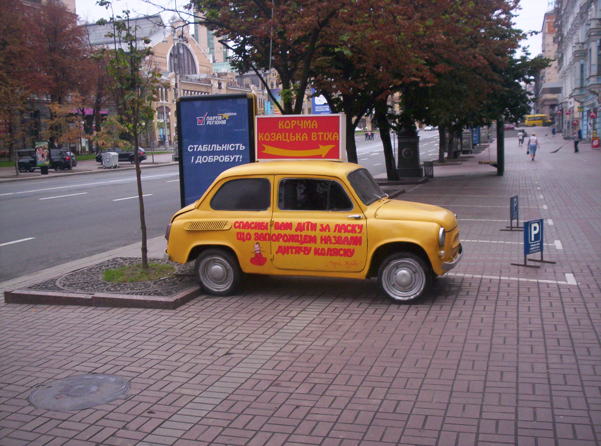 "Zaporozhets" on Khreshchatyk (Kyiv, Ukraine), café advertising